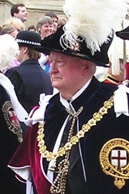 Lord Bramall wearing his robes as a Knight Companion of the Order of the Garter, in procession to St George's Chapel, Windsor Castle for the annual service of the Order of the Garter.